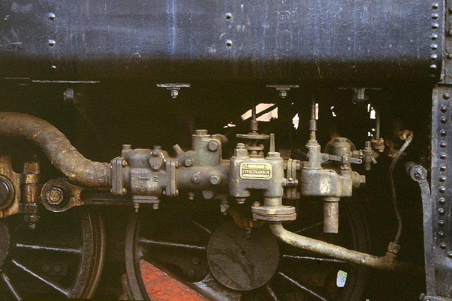 Exhaust steam injector Friedmann make ('Friedmann'scher Abdampfinjektor) mounted on a steam locomotive ČSD class 524